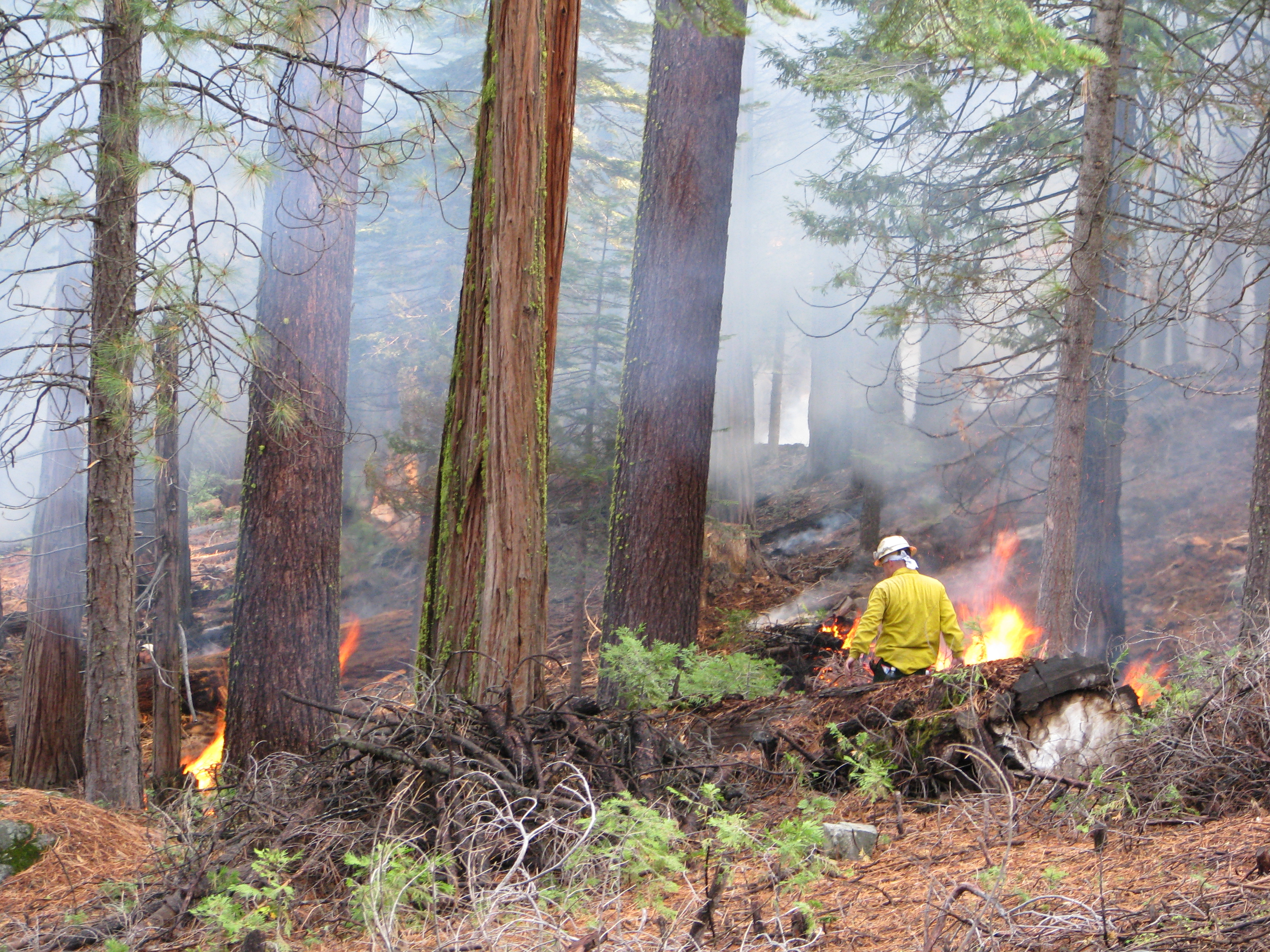 Firefighters work a controlled burn in Yosemite National Park